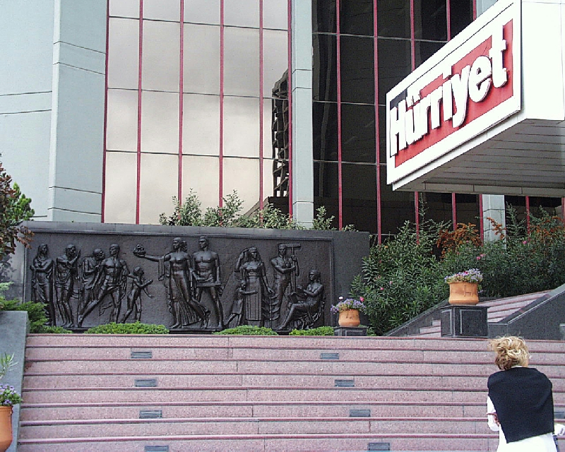 Hürriyet head office